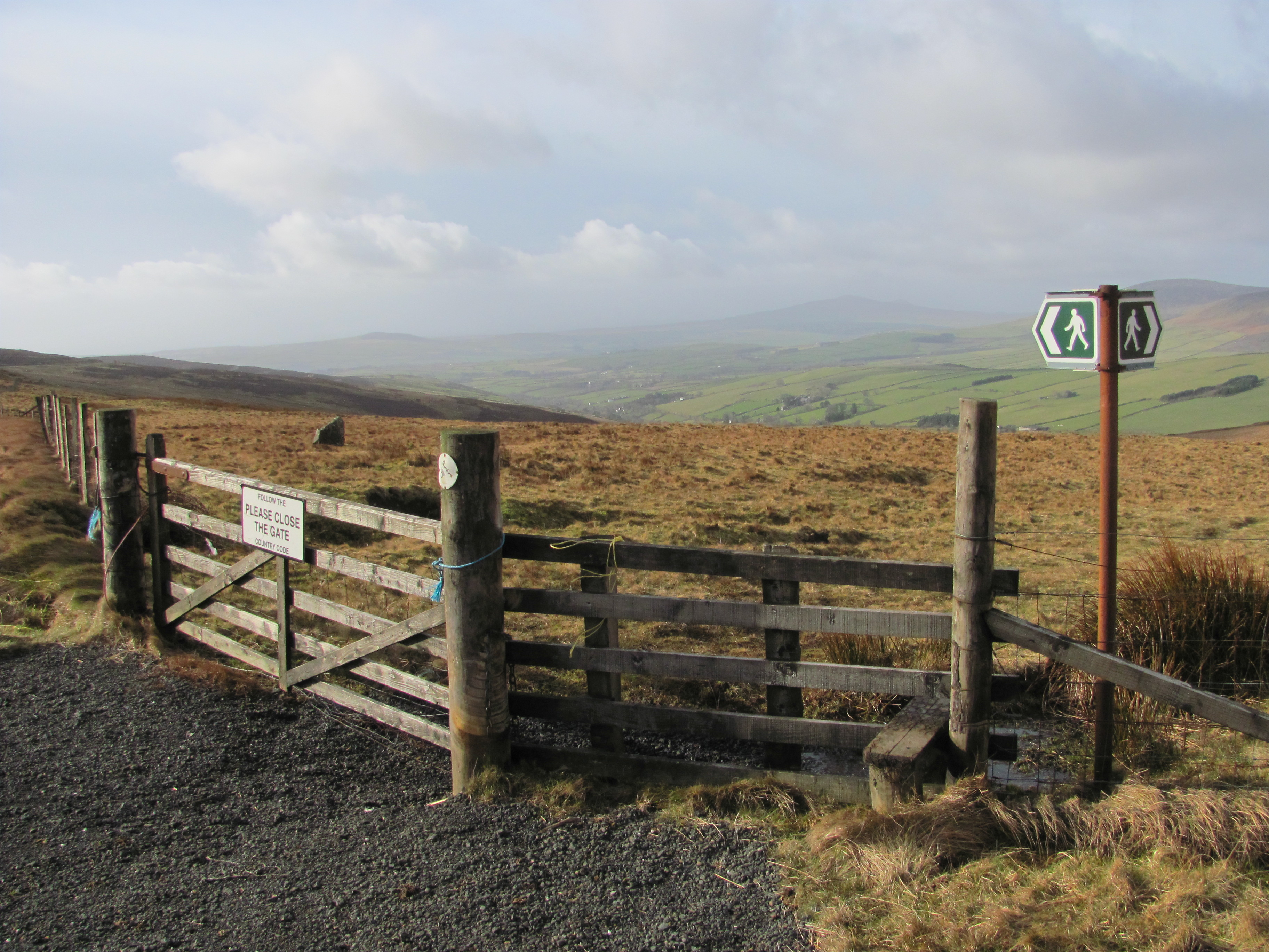 Windy Corner & Nobles Park, Braddan, Isle of Man